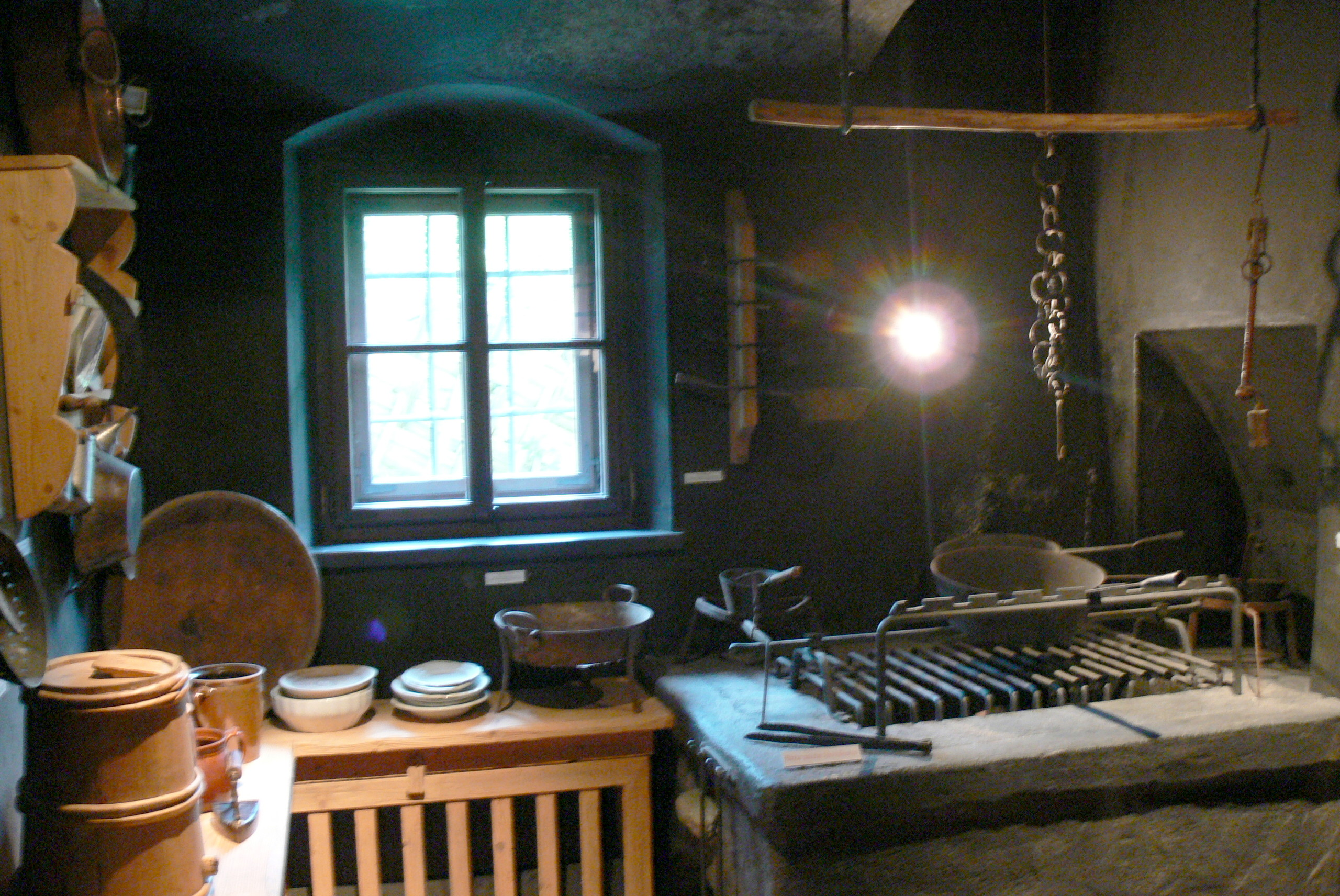 Museum of Mining and Gothic art in Leogang ( Salzburg state ): Historical miners´ kitchen.